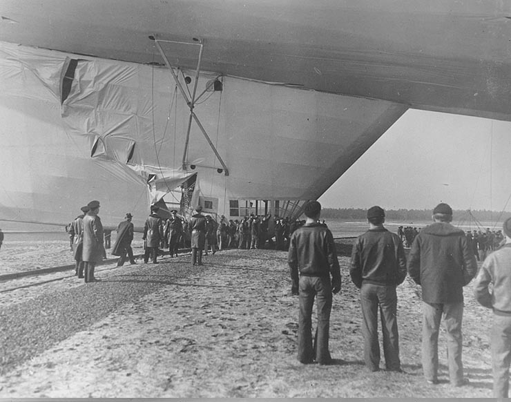 USS Akron (ZRS-4) lower fin damaged after the incident of 22 February 1932. Rear Admiral W.A.Moffet in the left center, facing the camera.